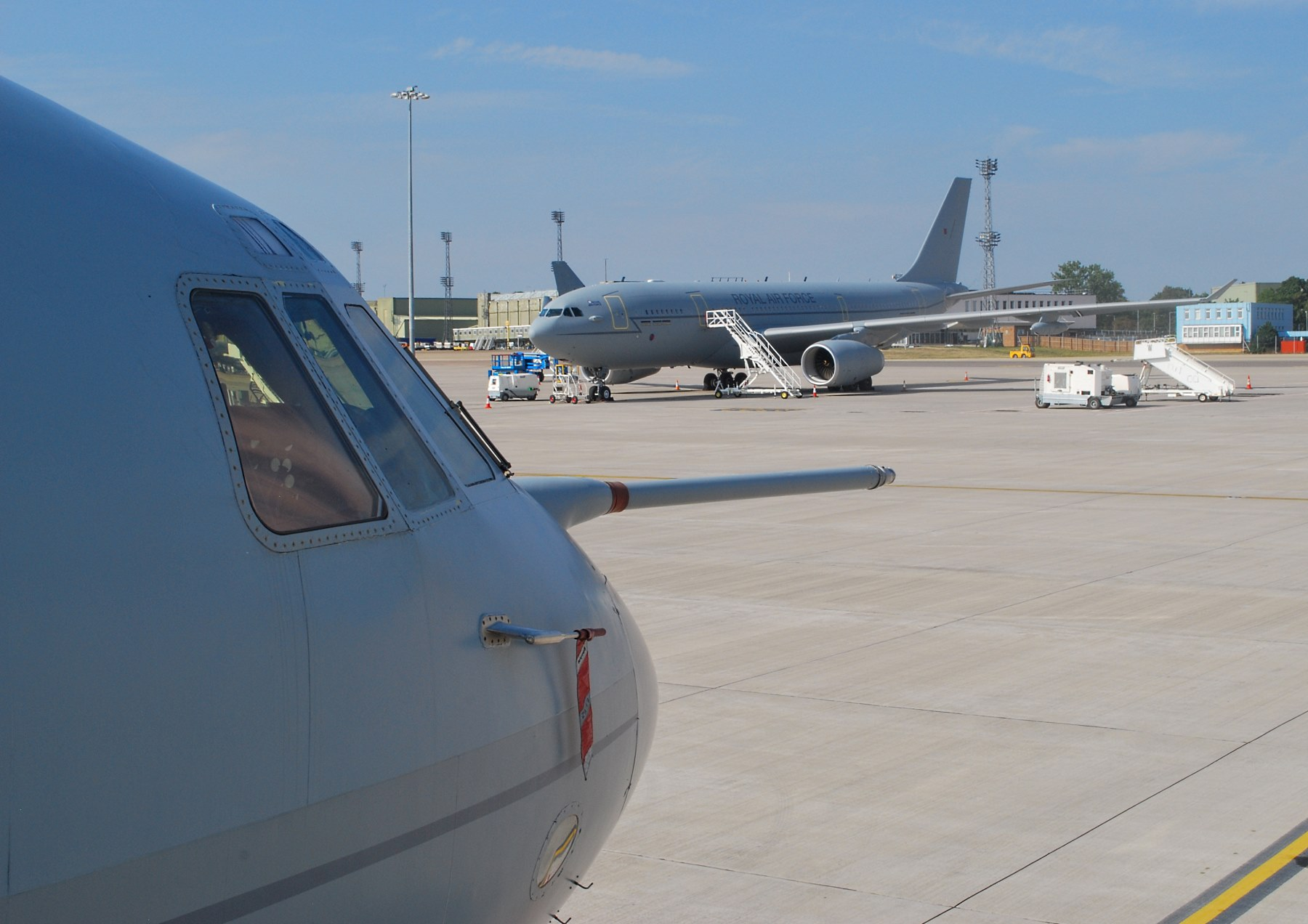 ZA147 RAF VC-10 looks towards its replacement, ZZ333 Airbus A330 Voyager KC3